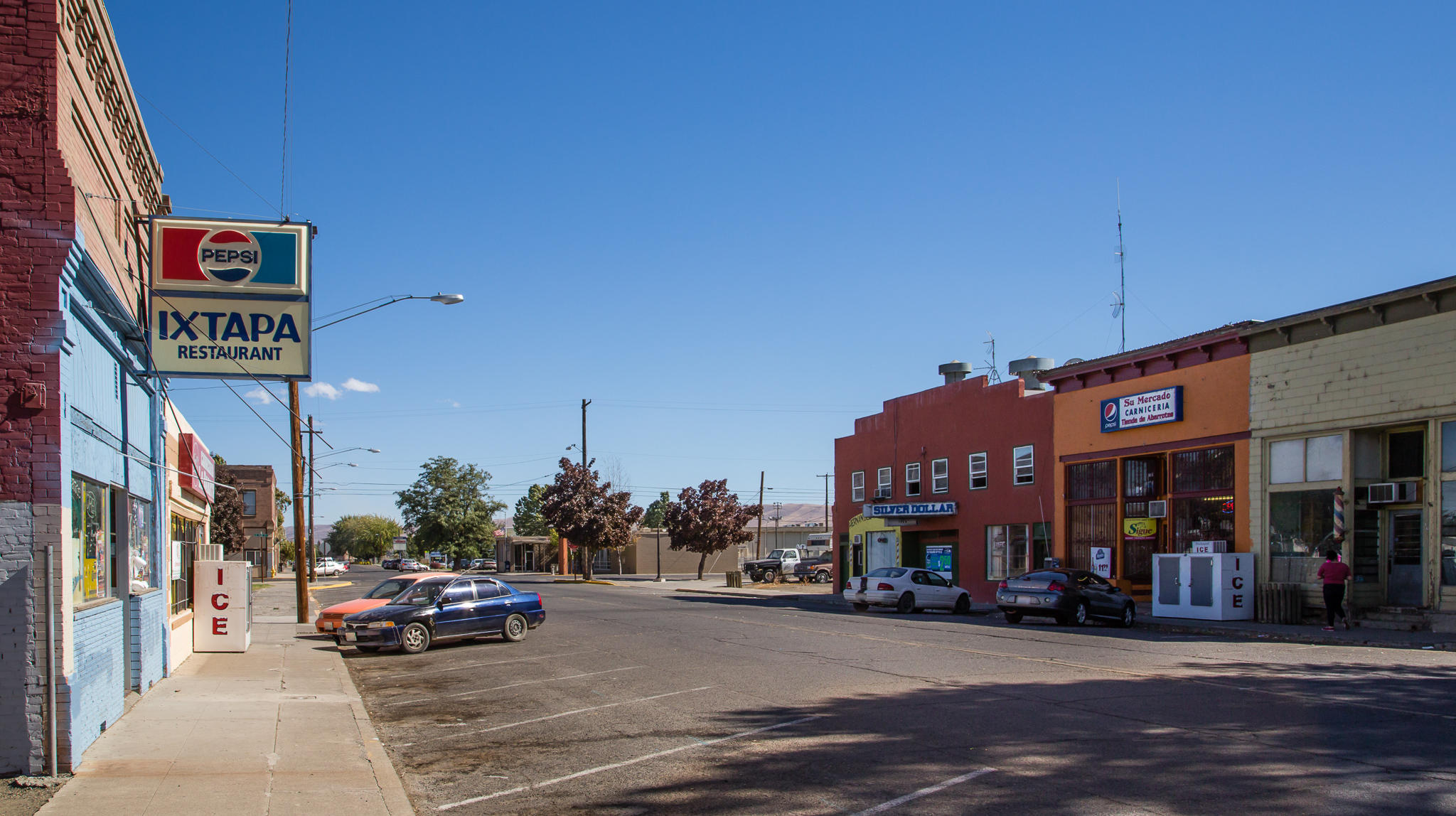 Main St., Mabton, Washington